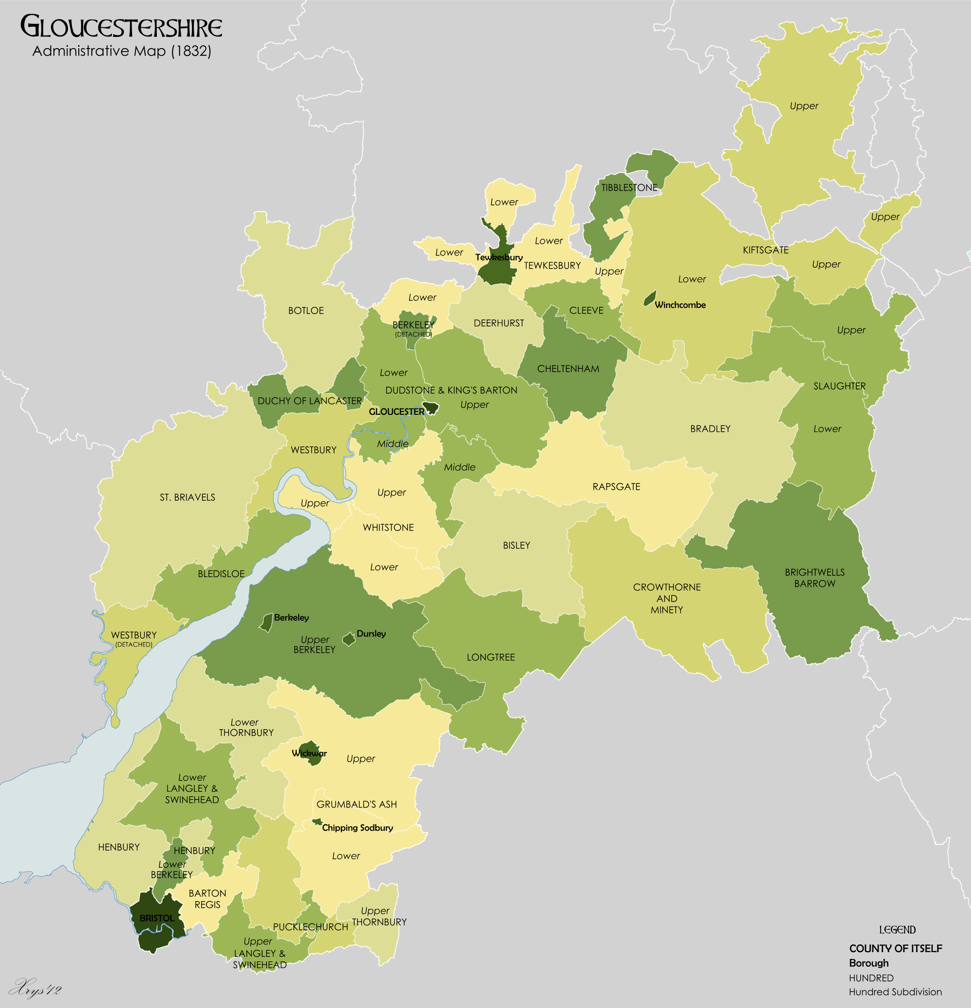 Administrative map of the county of Gloucestershire in 1832. Showing Hundreds, extant Boroughs and the County of Itself of Bristol. Hundred boundaries from University of Nottingham English Place Name Society. Source data for parish boundaries - Kain, R.J.P., and Oliver, R.R. (2001) "Historic parishes of England and Wales". Unit names from Vision of Britain website.